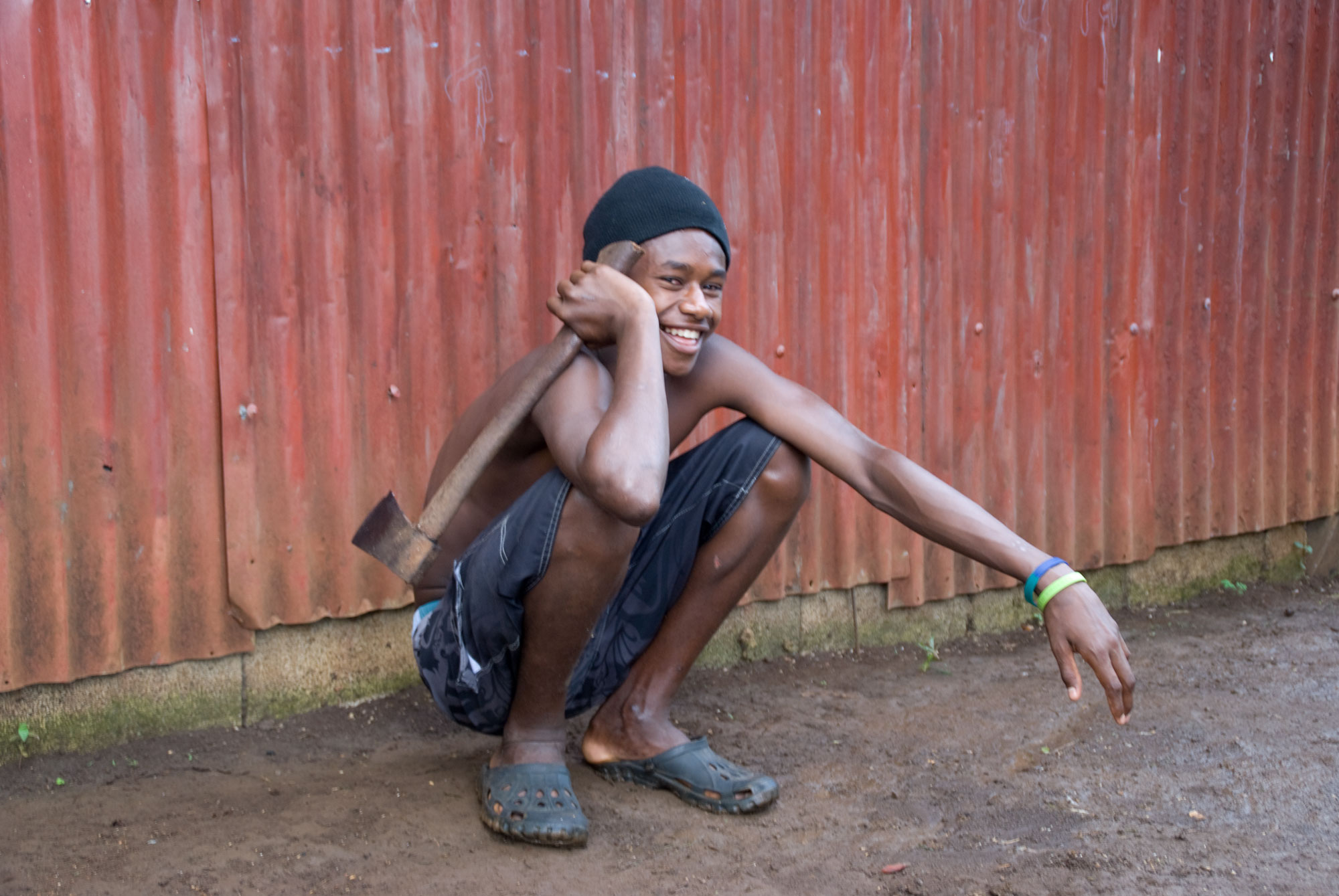 Boy With Axe